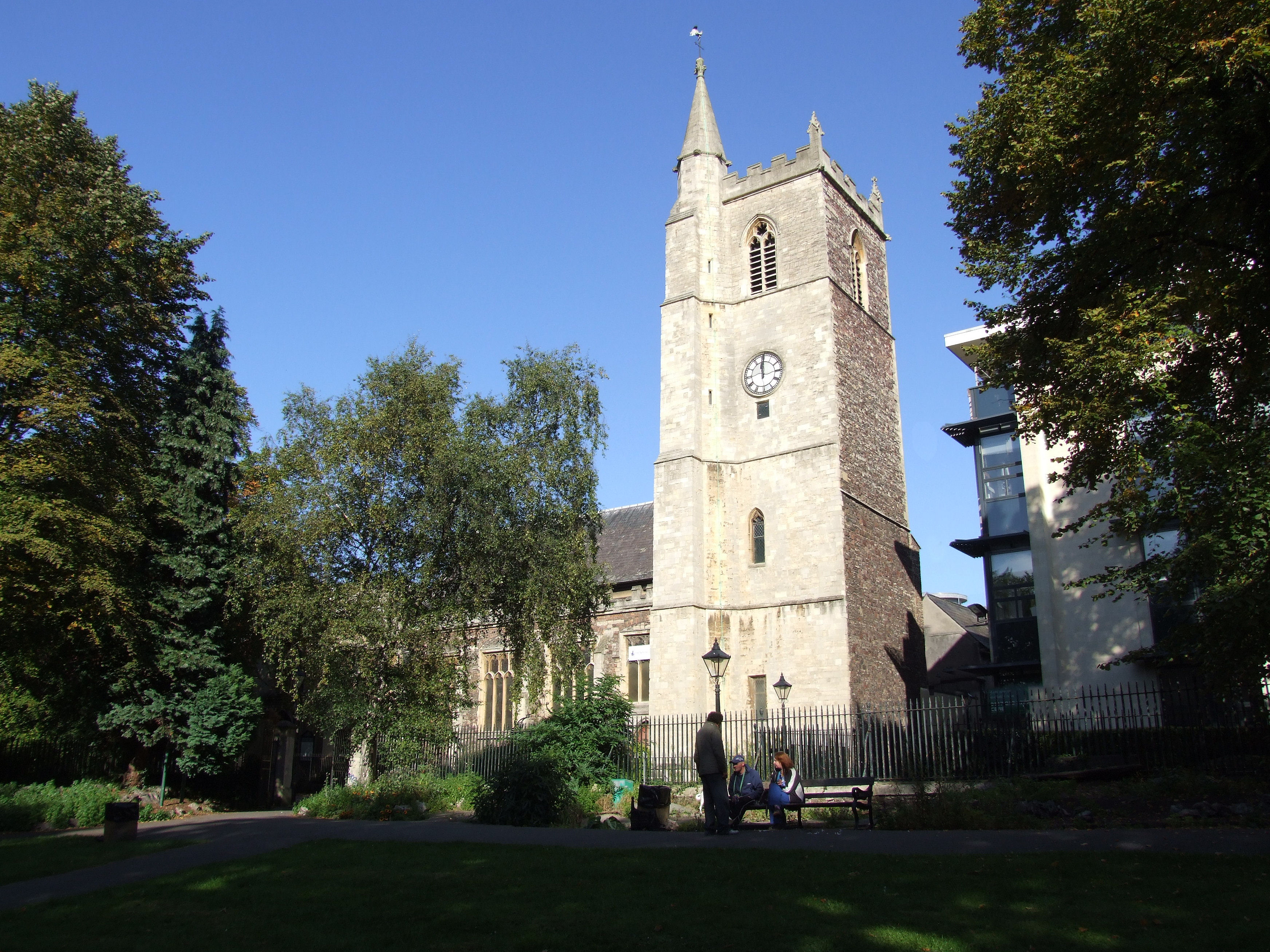 This Norman church is close to the Bristol’s recently rebuilt Bus Station. It's the City's earliest surviving building. The priory was founded in 1129 by Robert, Earl of Gloucester. When the priory was dissolved, the nave of its church was spared, as it had become a parish church. It's now a Roman Catholic church, open for silent prayer and run by the Little Brothers of Nazareth together with the St James Priory Project for homeless people with a substance dependency.